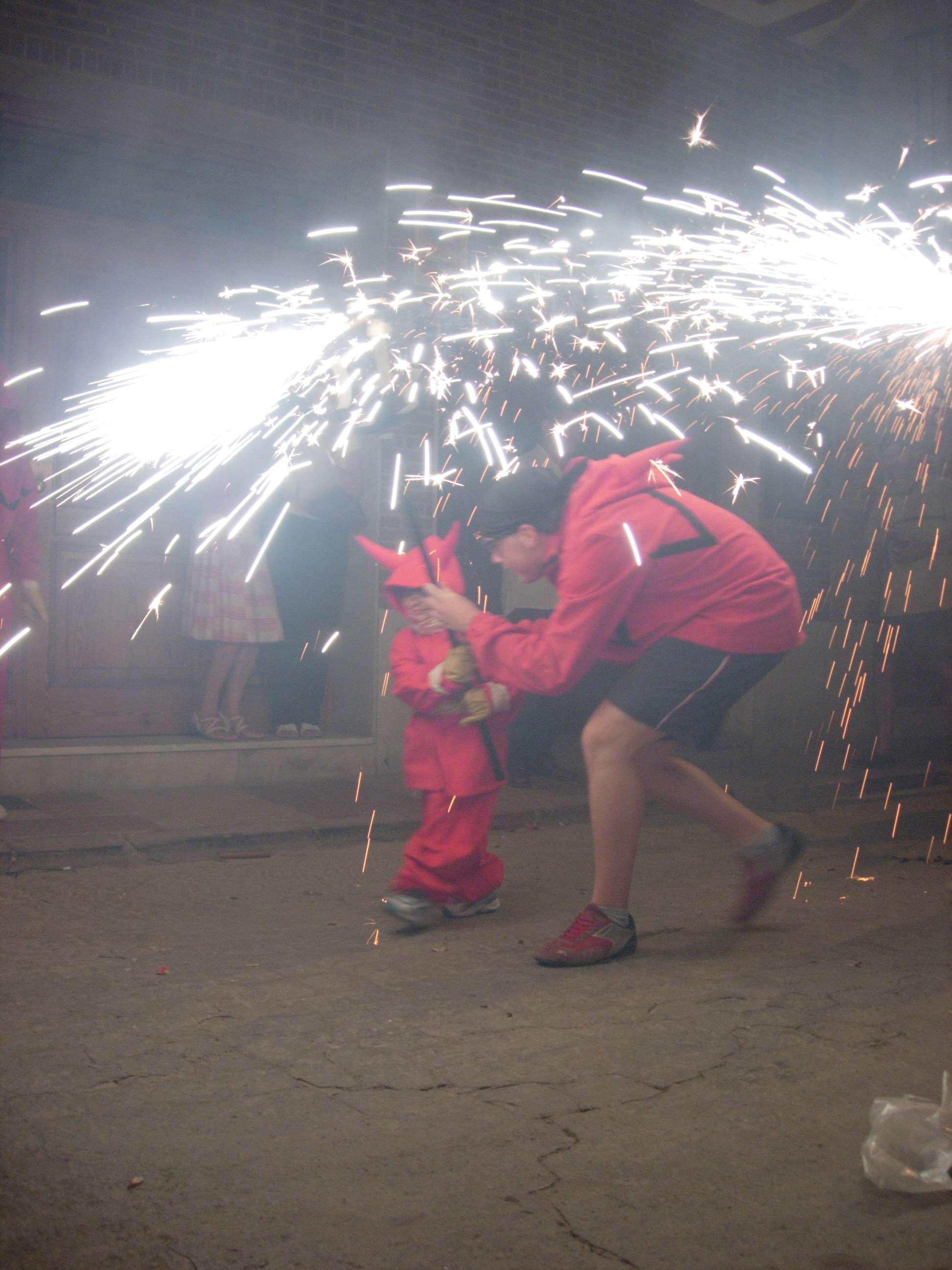 Kids fireworks